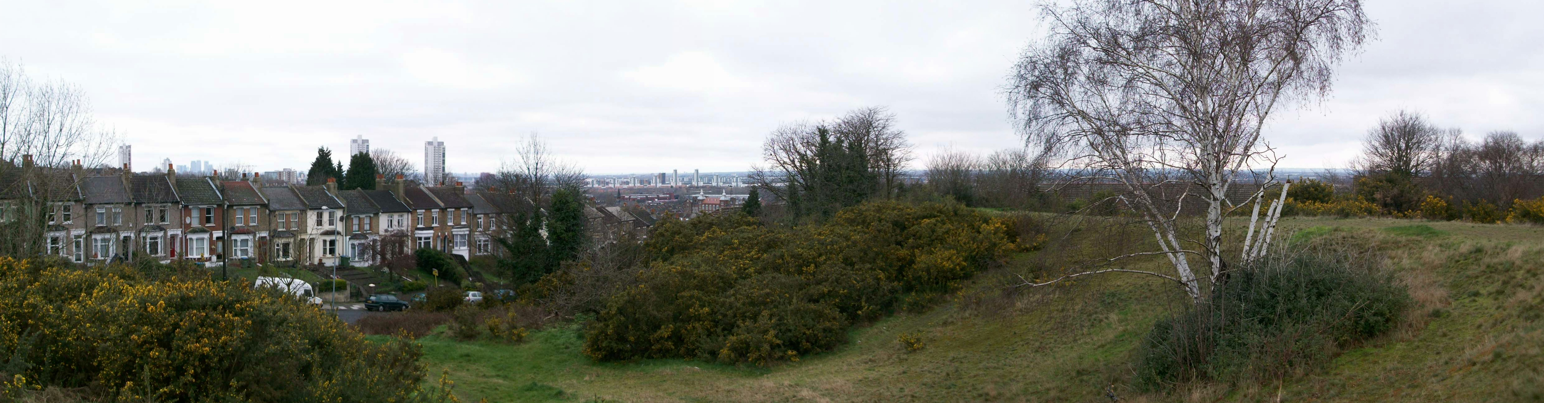 A Picture of the North side of the Common - towards Plumstead